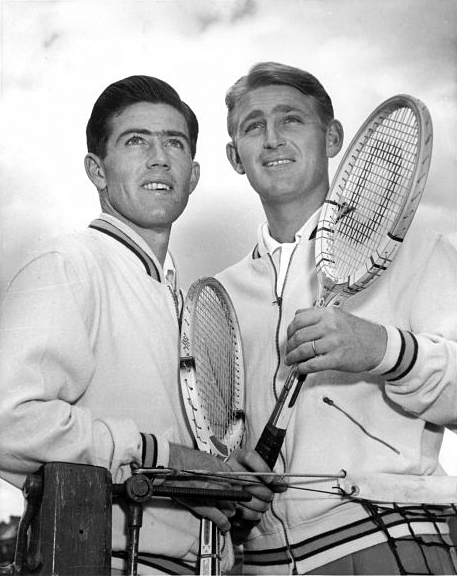 Australian tennis players Ken Rosewall (l) and Lew Hoad (r) at the 1954 Davis Cup challenge round match against the USA at White City, Sydney.